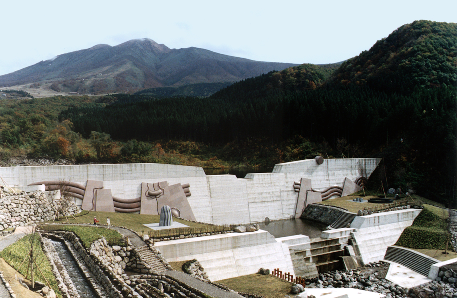 Tetsuo Harada sculptor carved this granite environmental sculpture for the Tazakawo-Dam in Akita Prefecture in Japan. 120 m long, 16 m high, 250 tonnes of sculpted granites from France Britany and Madras India. Inaugurated in 1995